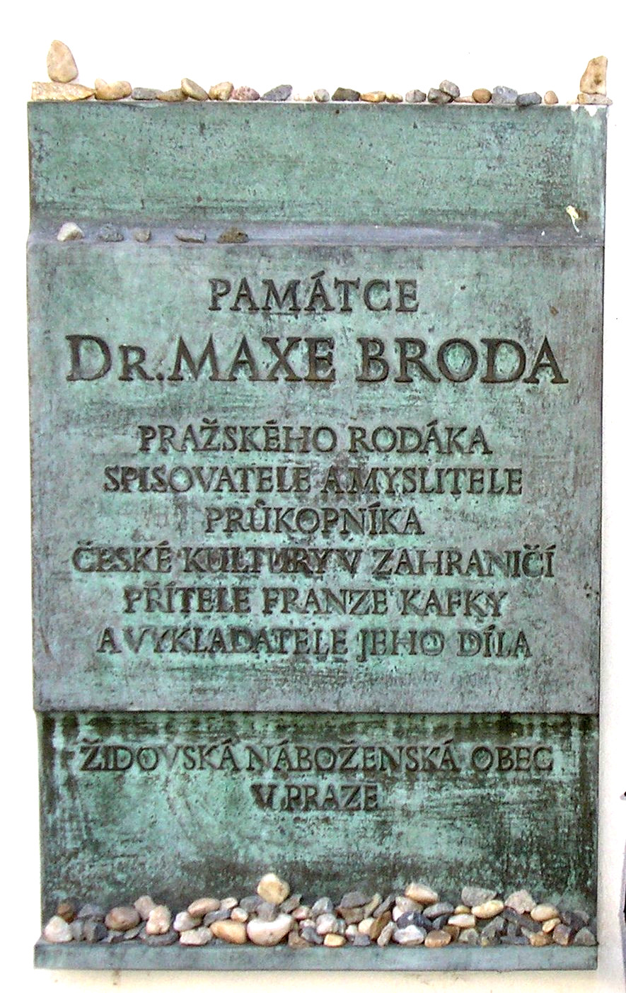 Opposite to the grave of Franz Kafka (New Jewish Cemetery, Prague) there is a wall with a bronze plaque which commemorates Max Brod (1884 – 1968), friend, biographer and publisher of the literary work of Franz Kafka.